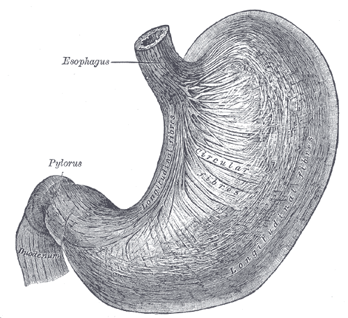 The longitudinal and circular muscular fibers of the stomach, viewed from above and in front. (Spalteholz.)